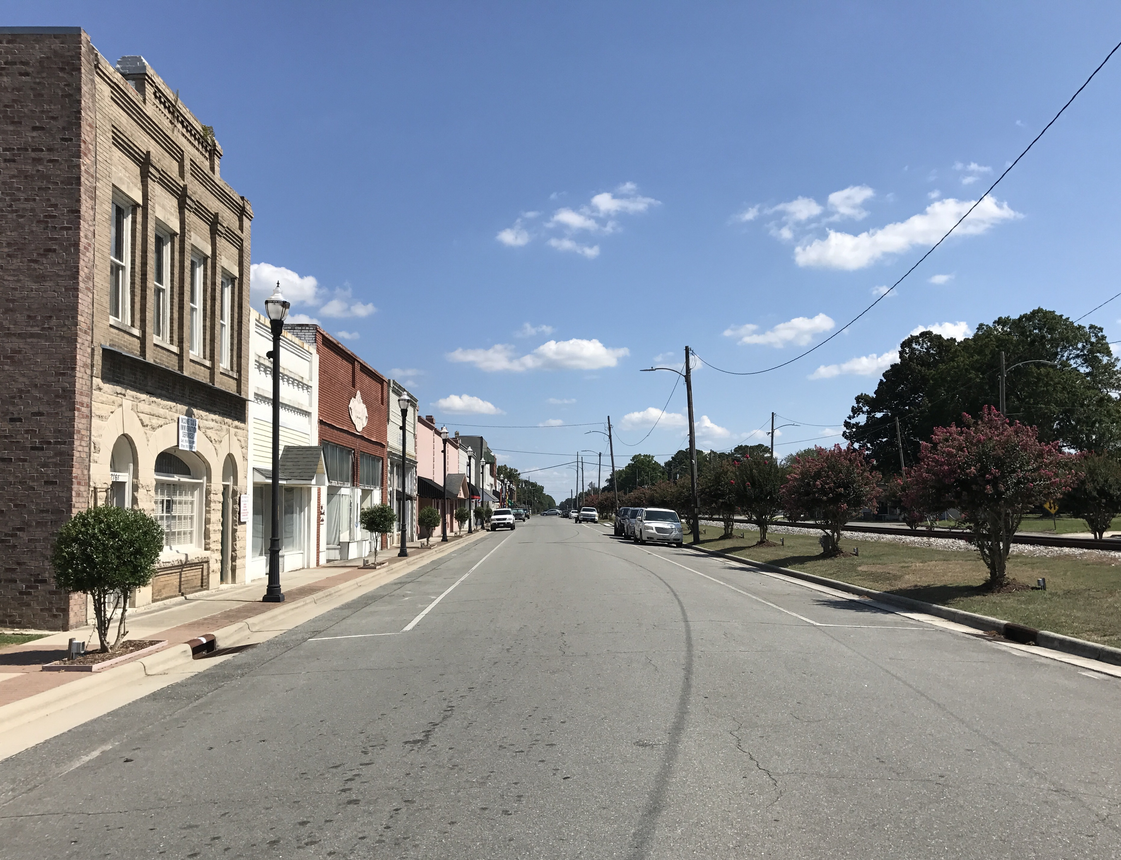 Buildings in downtown Warsaw along Front Street